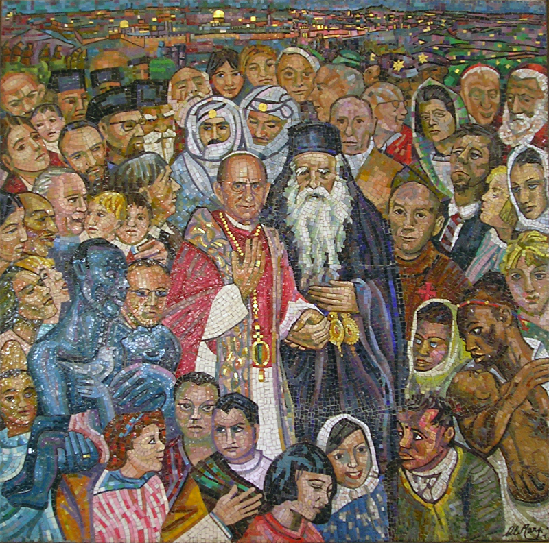 Mosaic depicting Pope Paul VI and Patriarch Athenagoras I. The sacristy of the chapel Dominus Flevit in Jerusalem.